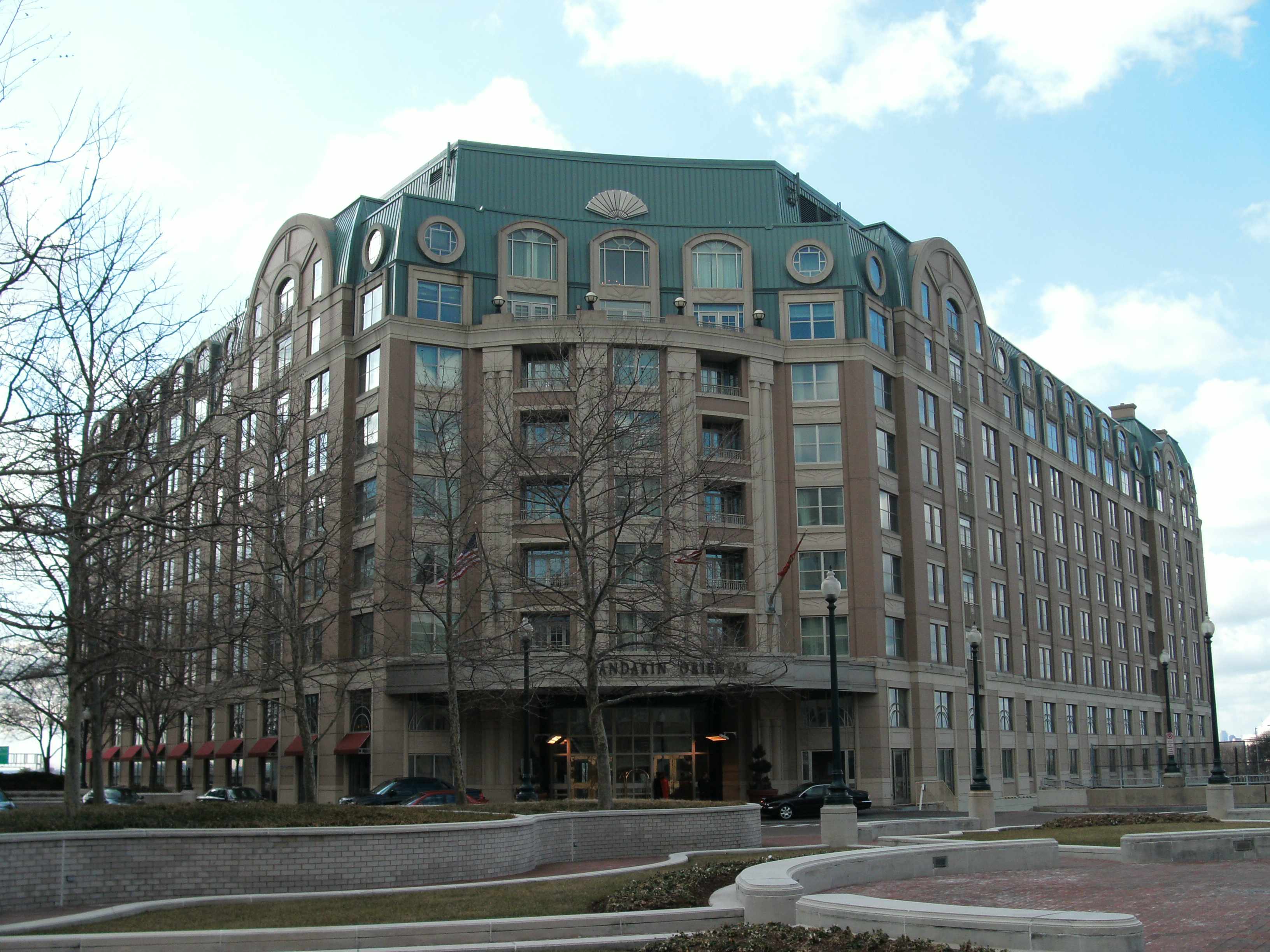 1330 Maryland Ave SW, Washington D.C. Image taken by me for Wikipedia